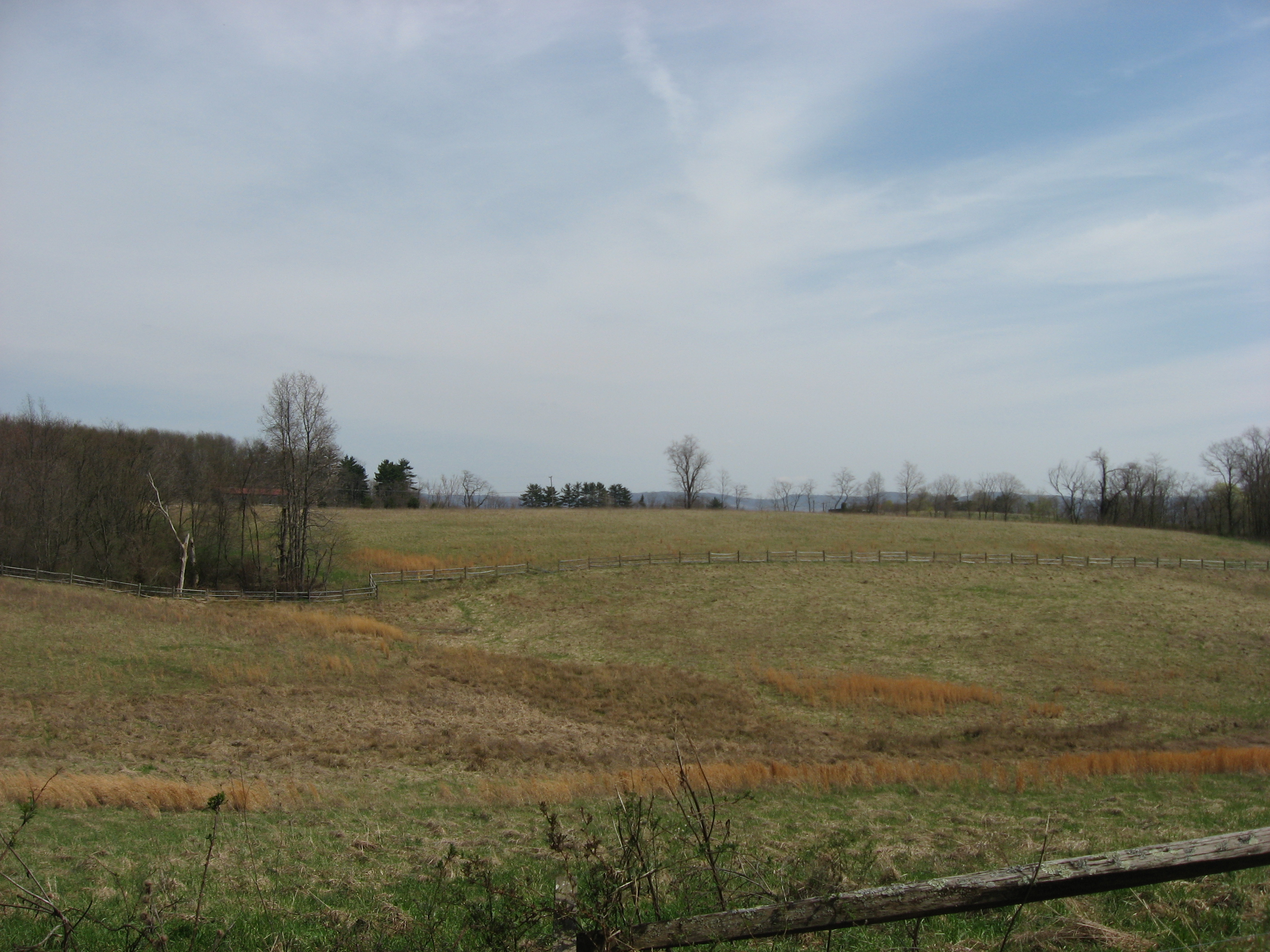 Overview of the fields at the Deffenbaugh Site, located along Old Frame Road in Nicholson Township, Fayette County, Pennsylvania, United States. The Deffenbaugh Site is an archaeological site that was once a village of the Monongahela culture of Native Americans. It is listed on the National Register of Historic Places.